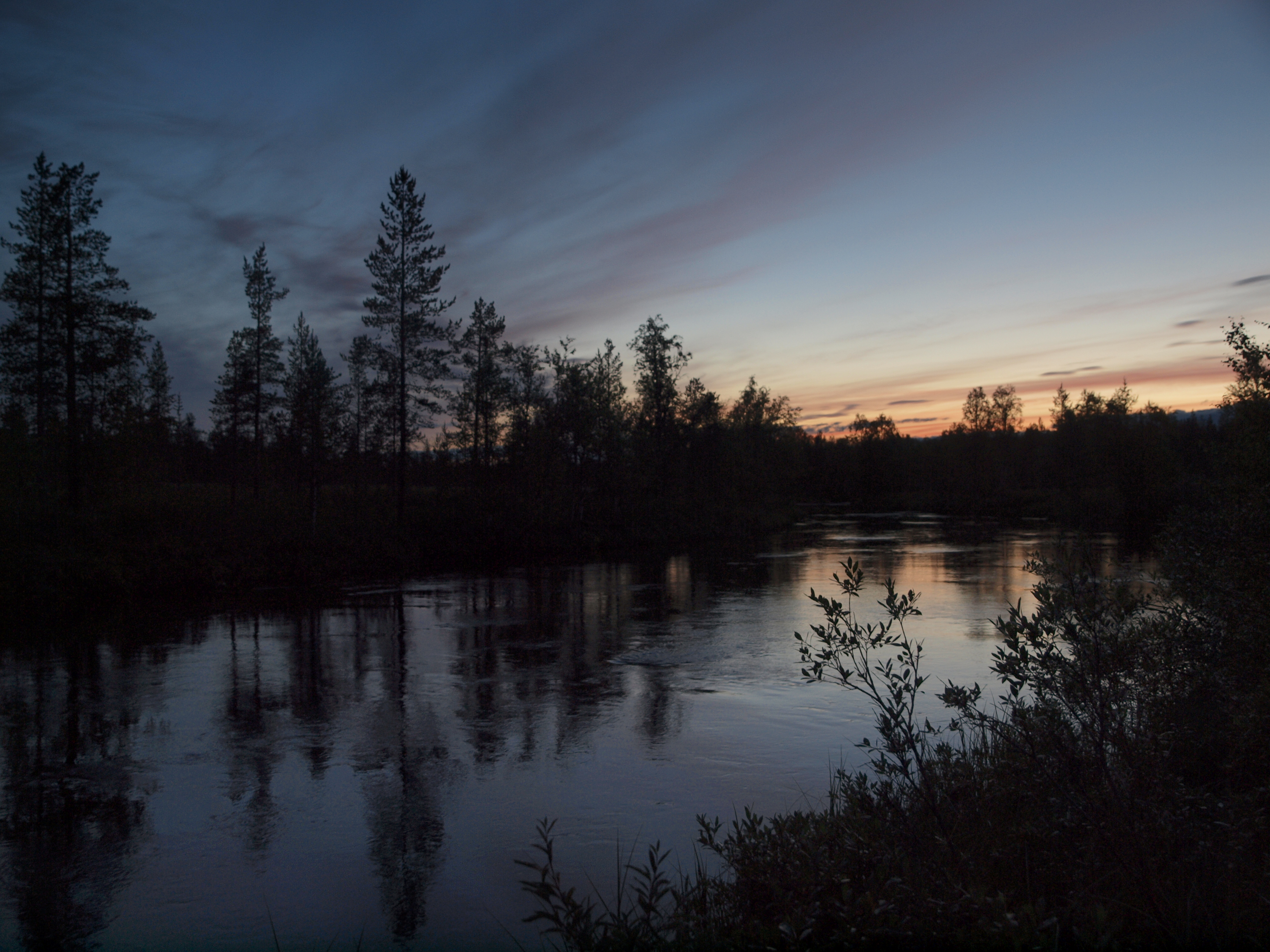 The river Tulppionjoki in Tulppio, Savukoski, northern Lapland, Finland, in the middle of the night at about 2 AM. This far north in the middle of the summer the nights are so short that it wasn't very long until sunrise at 2 AM in the night. I could take this photograph with ISO 100 with no problems.